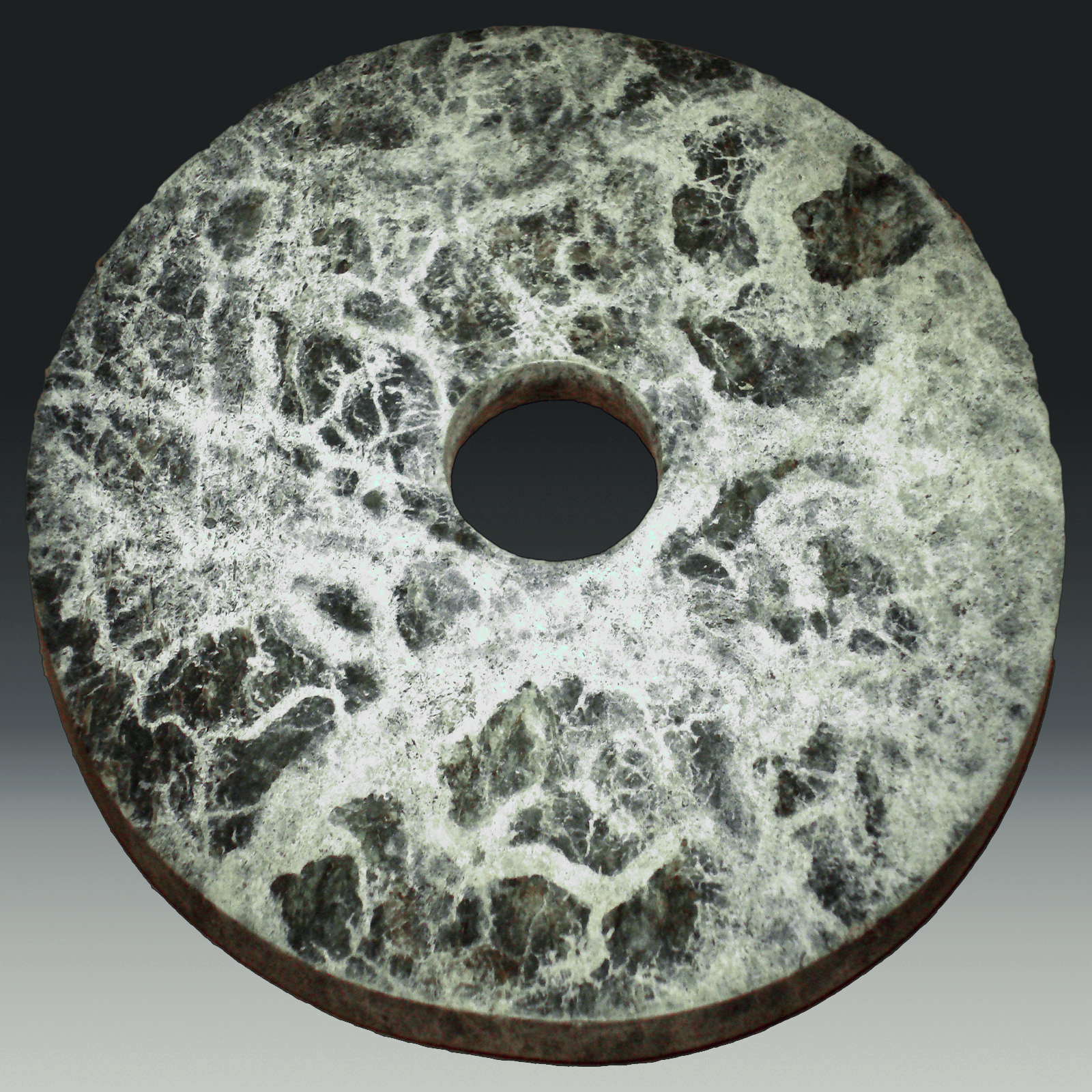 Jade Disk Liangzhu Culture Neolithic Period (3300 - 2200 B.C.) Excavated at Yuhang, Zhejiang Province. National Museum of China. Exhibition "Treasures of China", Canadian Museum of Civilisation, 2007. Symbolizing heaven, such disks were ritual objects - this particular disk is a symbol of weath, military power, and religious authority. Most such disks have been found in tombs belonging to high officials and aristocrats, and required much skill and patience to produce; this disk's rough shape suggests it was hastily produced for burial purposes.